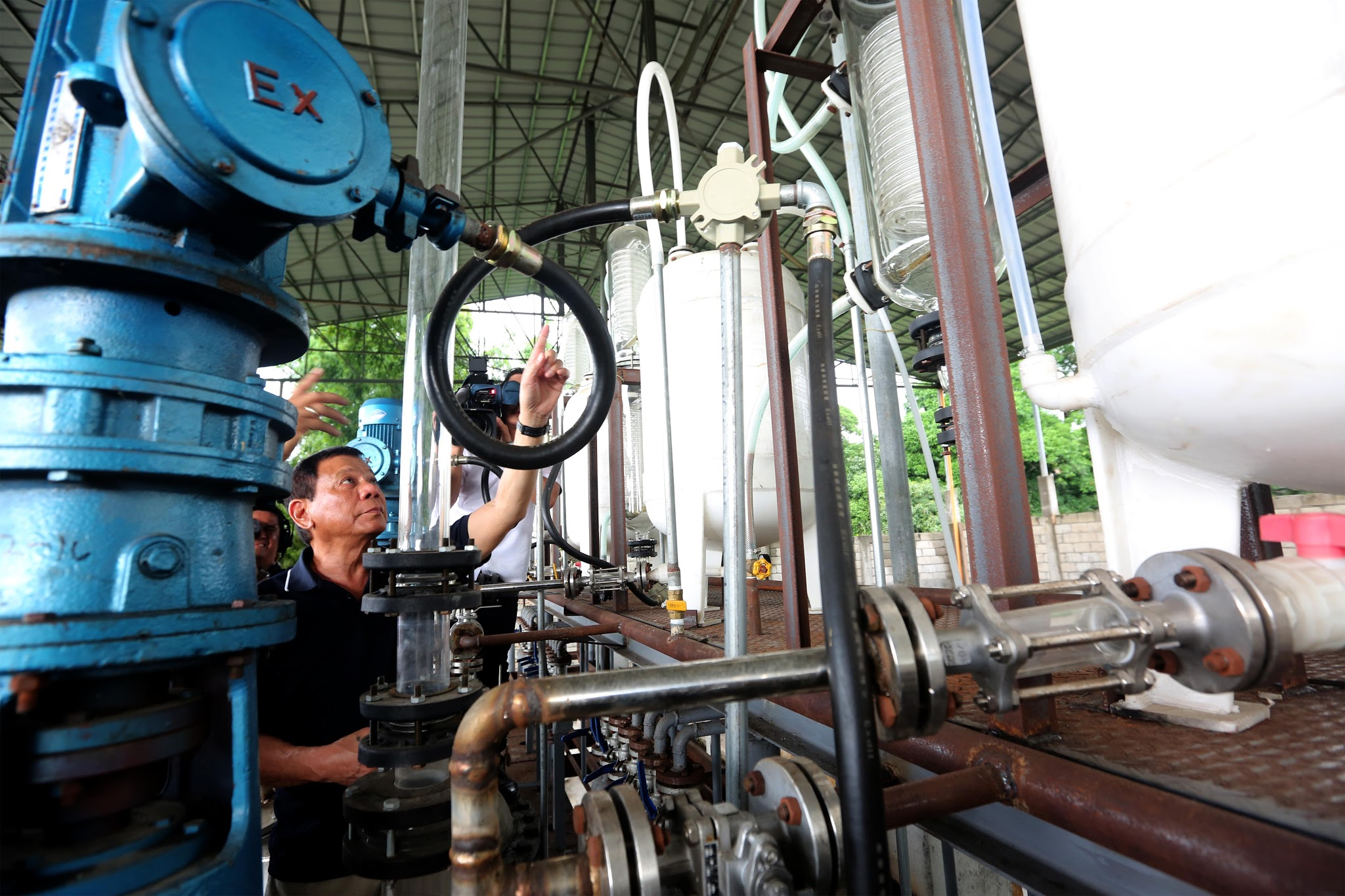 President Rodrigo Duterte leads the inspection of the seized shabu laboratory in Arayat, Pampanga on September 27. REY BANIQUET/PPD